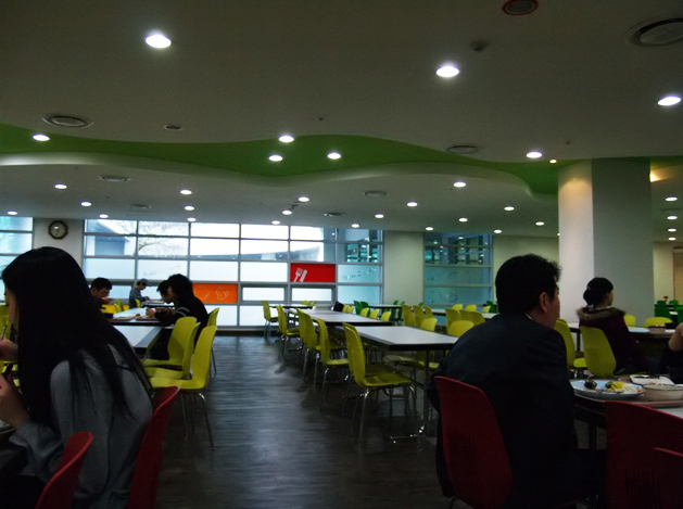 one of the students restaurant in Hanyang University : Nanuri